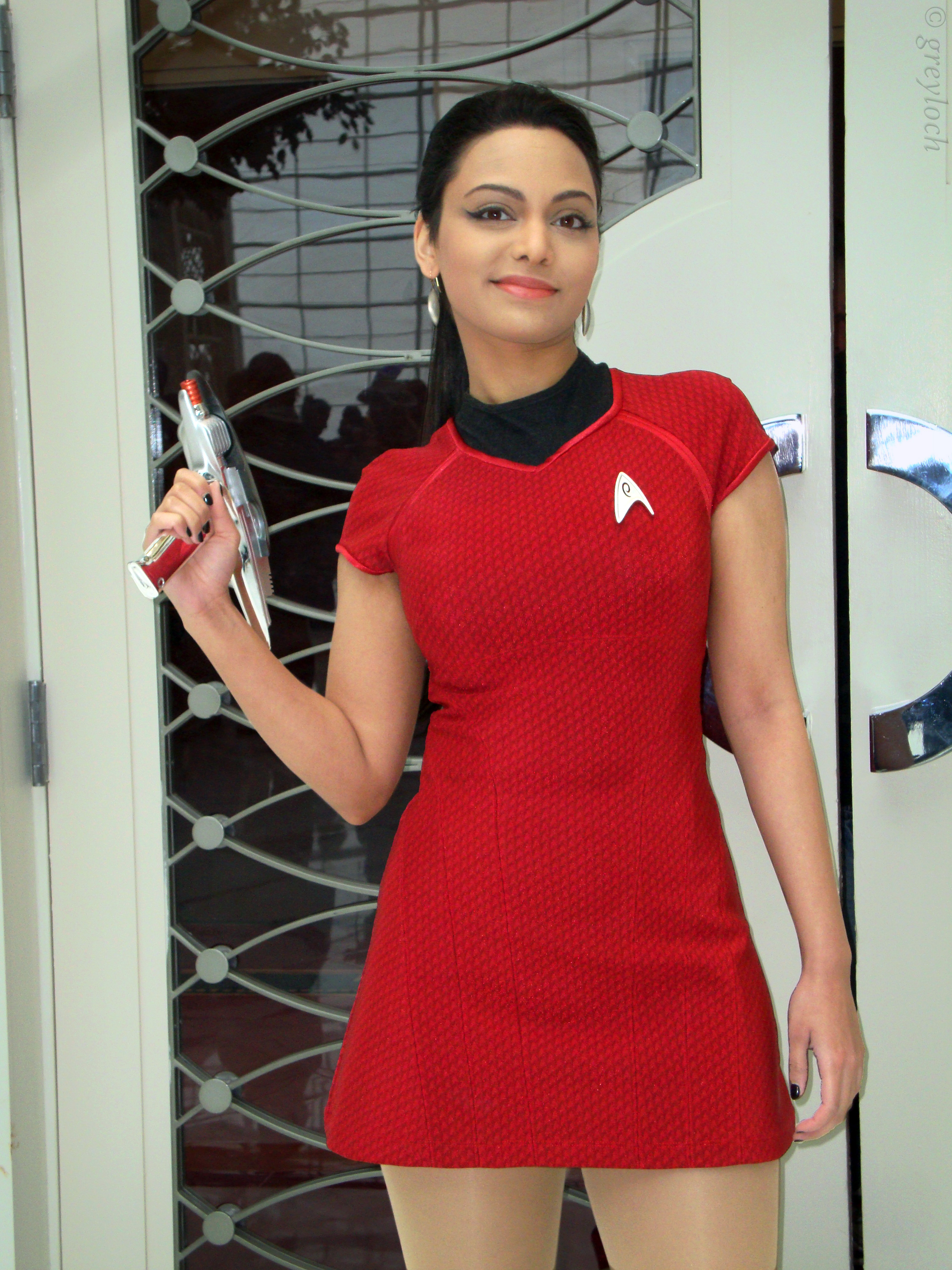 From the 2009 "Star Trek" re-boot. I really liked this girl's look as she looked smart and sassy and greatly resembled the actress currently playing Lt. Uhura (Zoe Saldana).